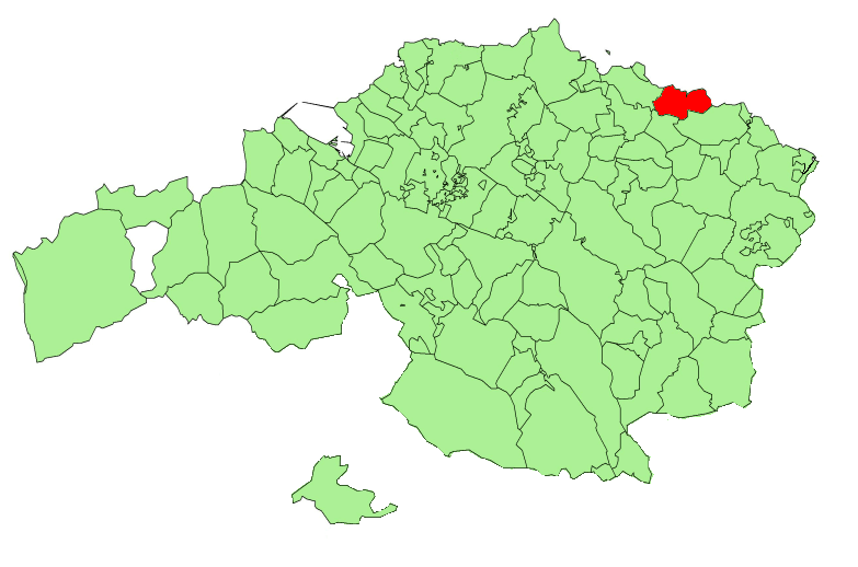 Ea municipality in the province of Biscay